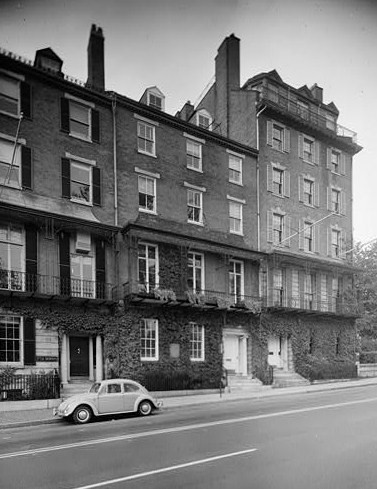 The George Francis Parkman House — at 33 Beacon Street, Boston, Suffolk County, Massachusetts. 1968 HABS—Historic American Buildings Survey of Massachusetts image (cropped).